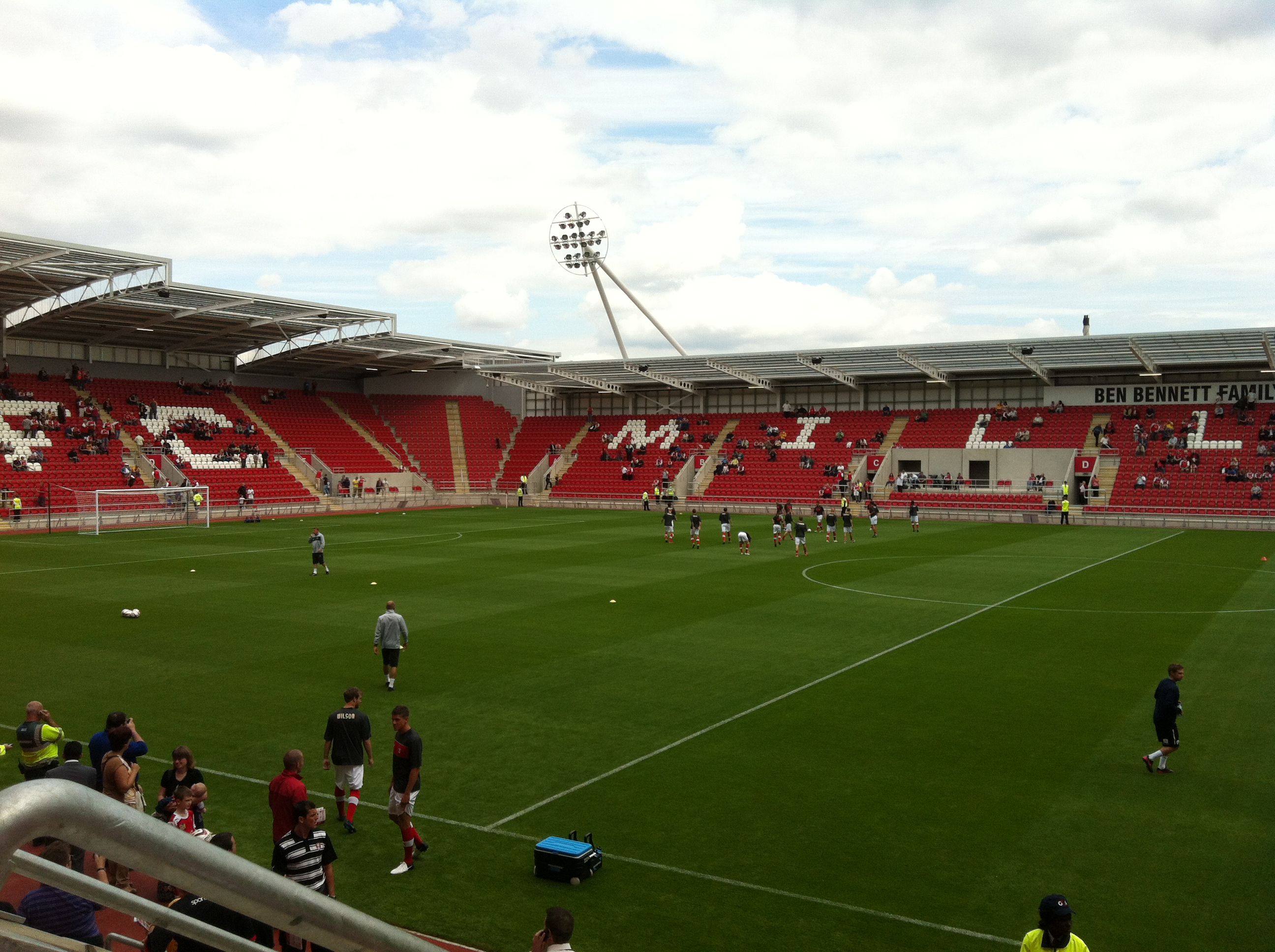 The New York Stadium, Rotherham, taken pre-match against Barnsley